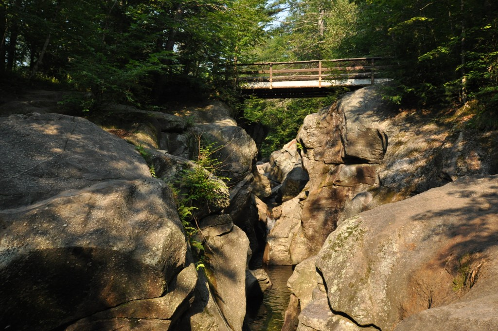 Sculptured Rocks gorge, Groton, NH